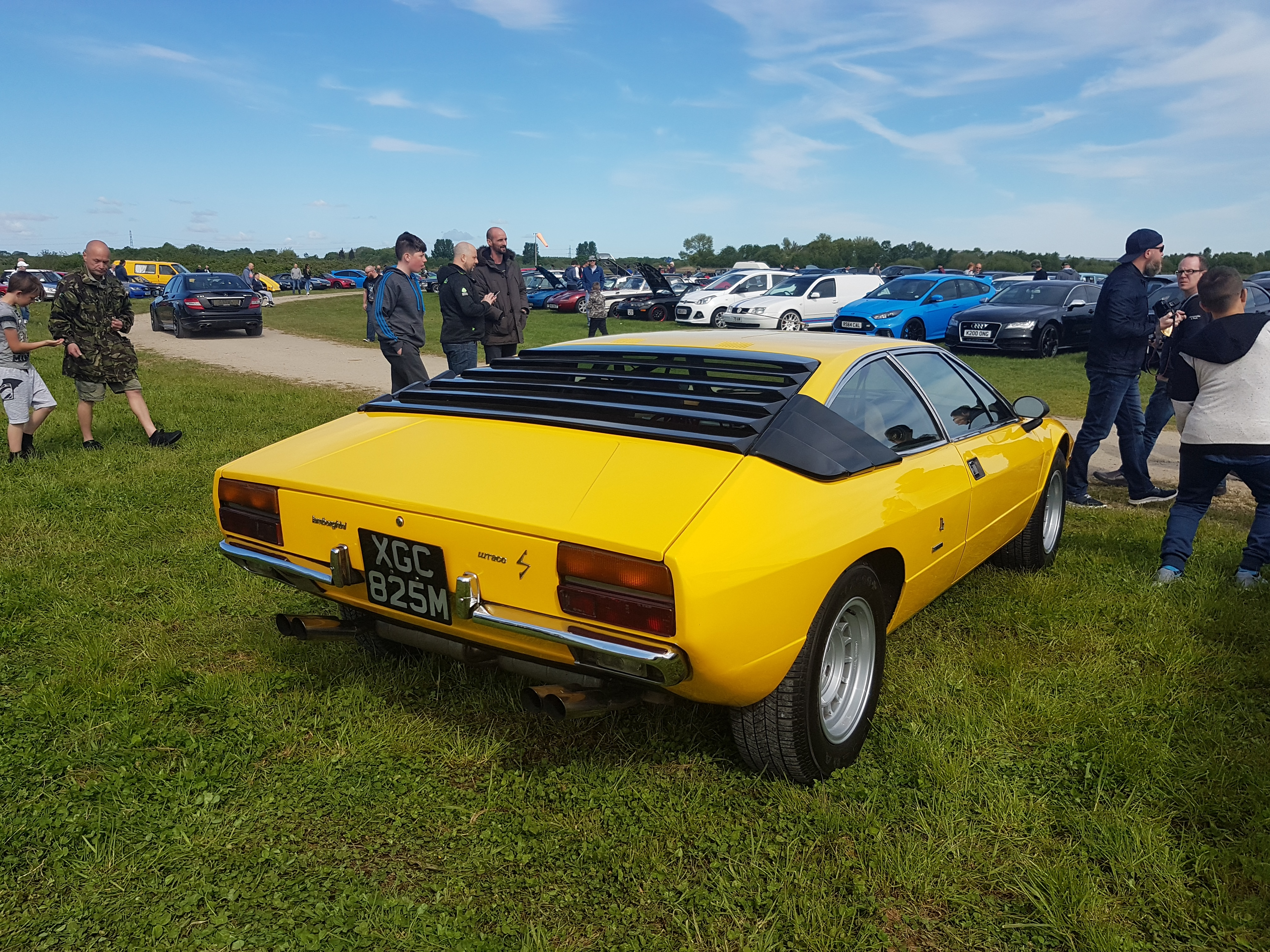 Taken at the manchester cars and coffee event at city airport manchester